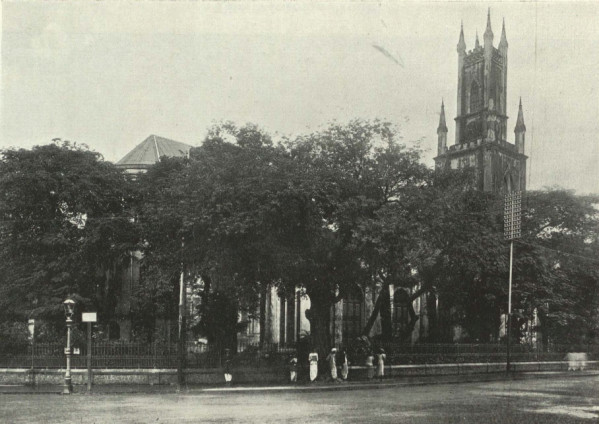 The foundation stone of the Cathedral was laid on Nov. 18th, 1715.